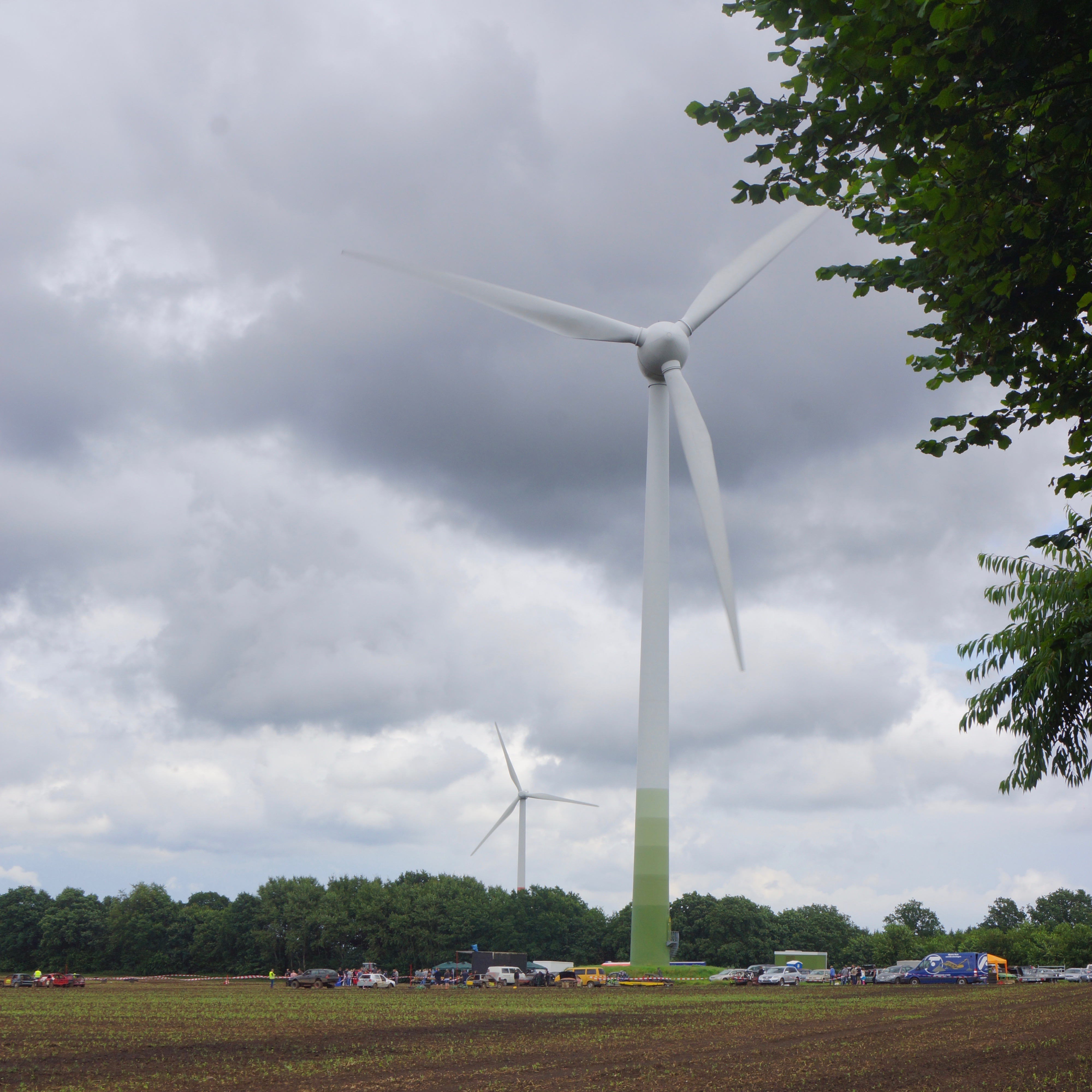 Wiemersdorf, Germany: Public Windfarm